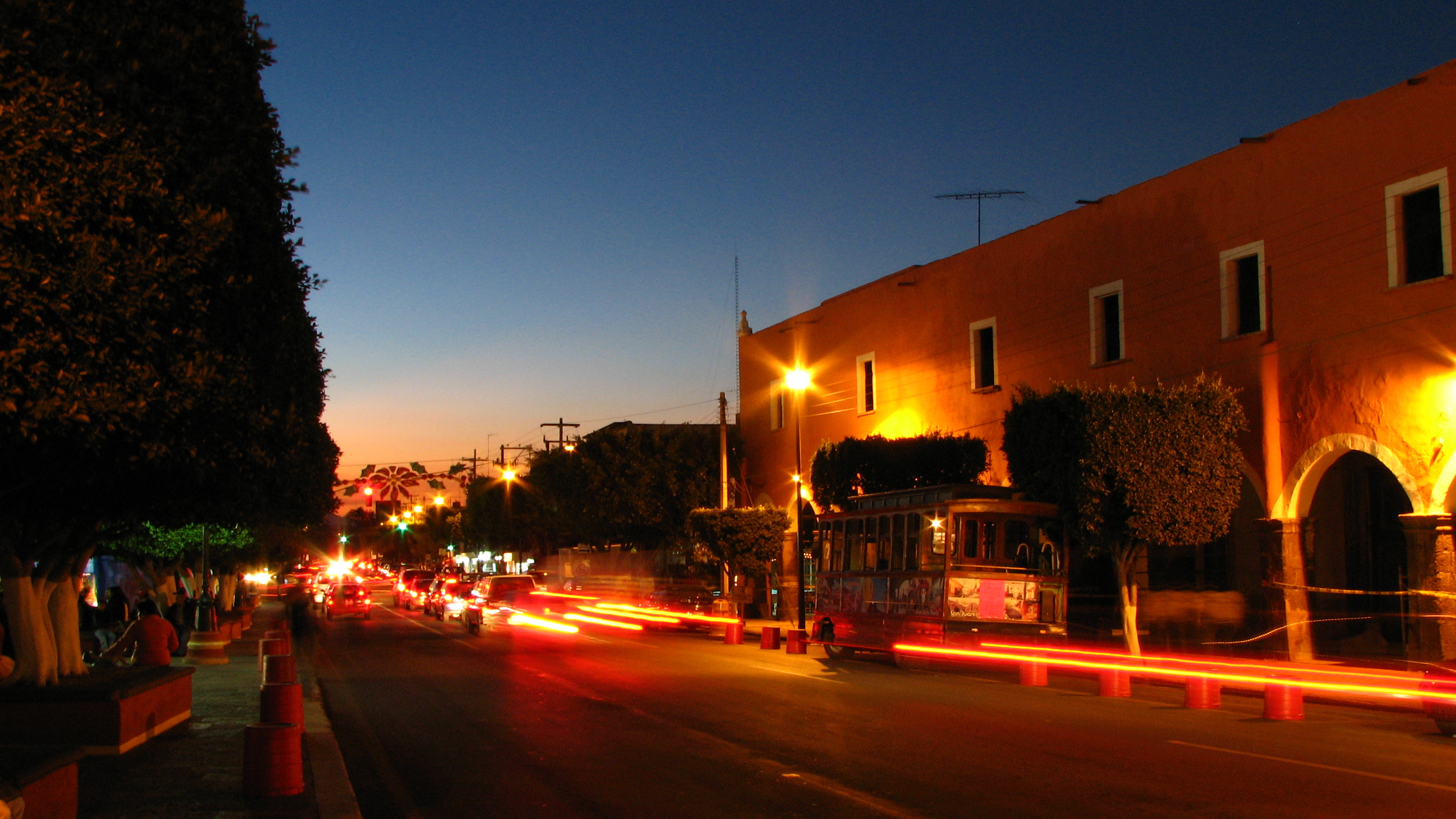 Picture of the Juárez Avenue, taken from the Garden of the Family, it shows the Portal of the Tithe and the tourist tram